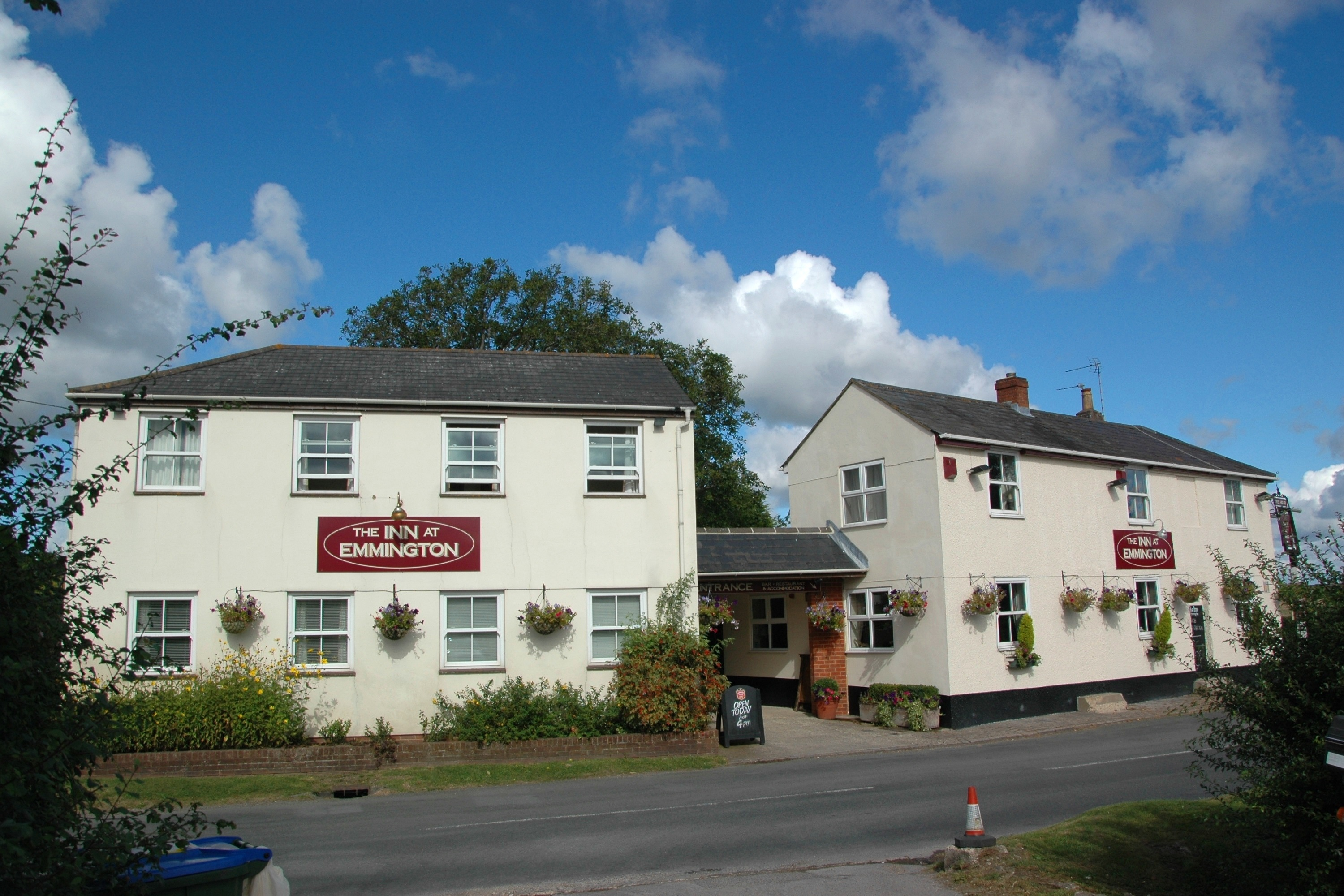 Sydenham, Oxfordshire: the "Inn at Emmington", which is actually in the parish of Sydenham